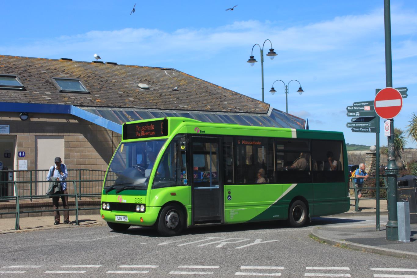 First Kernow use narrow-bodied Optare Solos on the route to Mousehole because of the tight corners in the road leading to the harbour. 53503 is an M710SE model registered YJ06YSK and is seen leaving the bus station in Penzance.